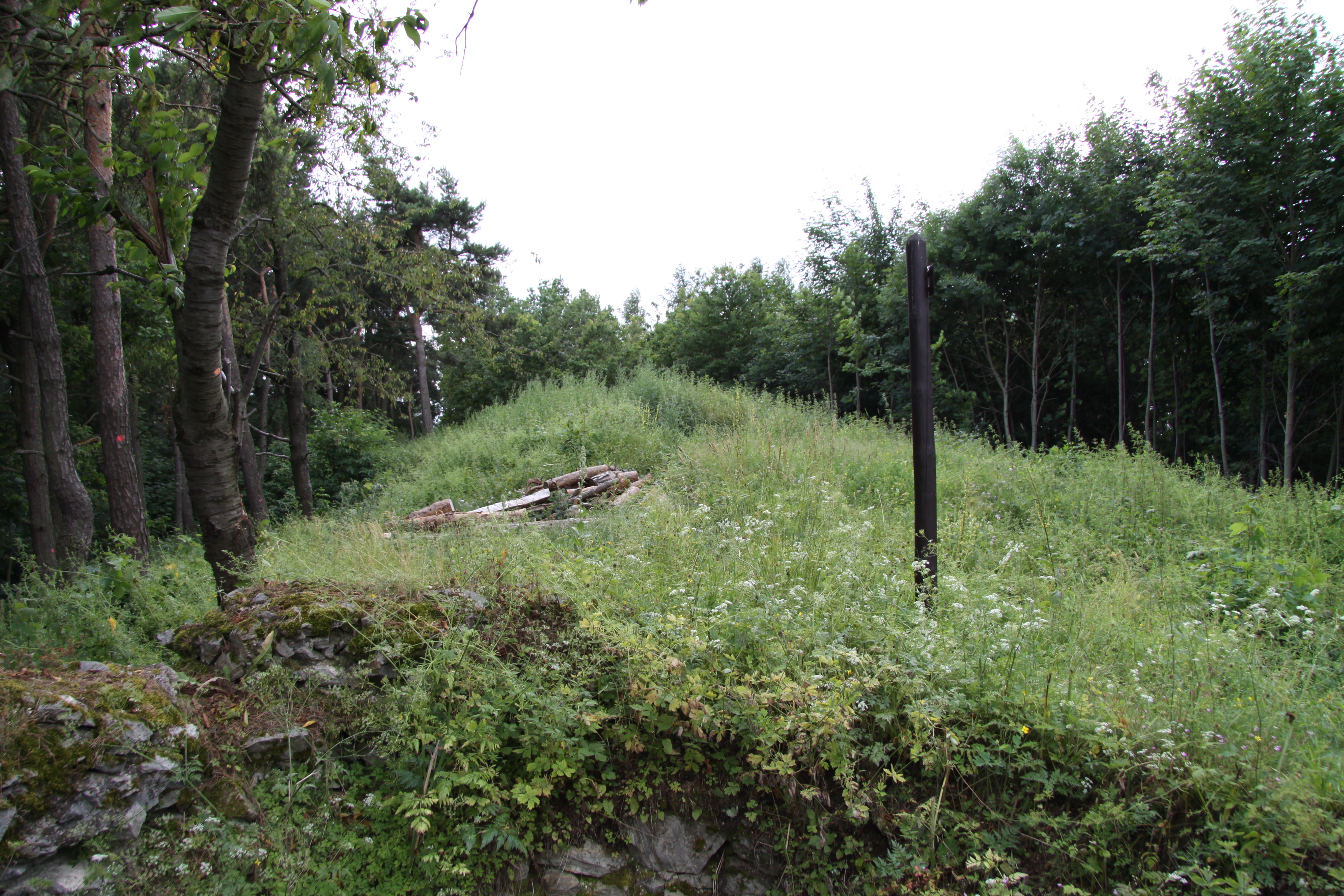 Ruins of Džbán Castle near Budětice village, Klatovy District, Czech Republic.